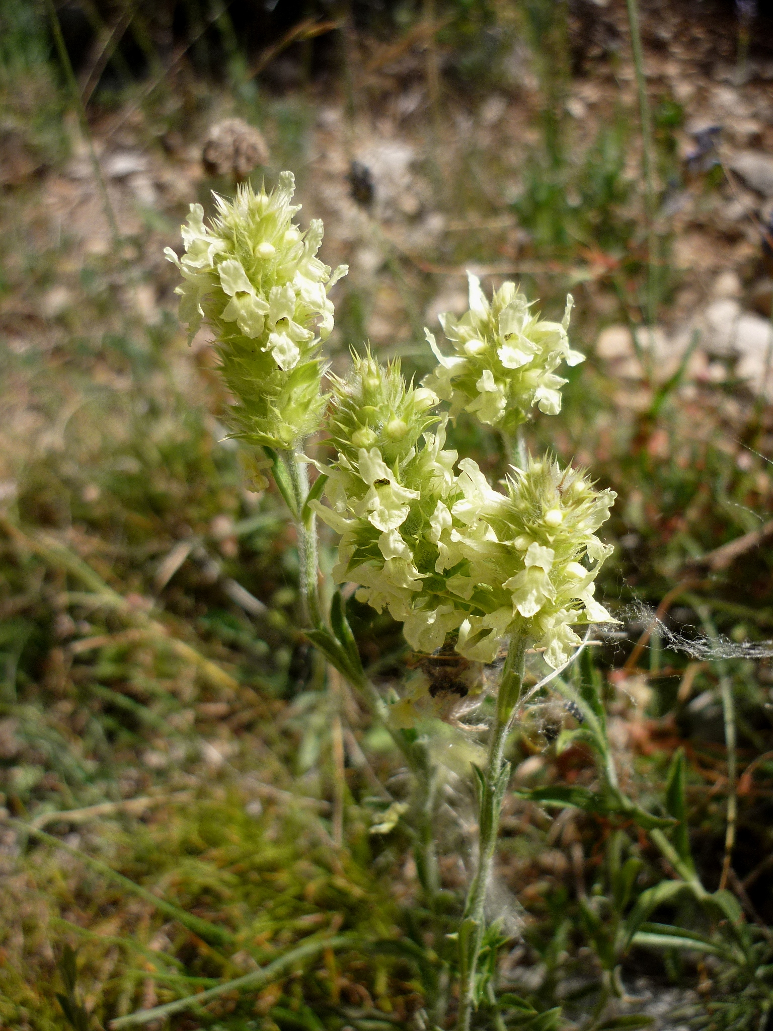 Sideritis hyssopifolia. In la Bòfia, Guixers (Solsonès - Catalunya). To 1.580 m. altitude